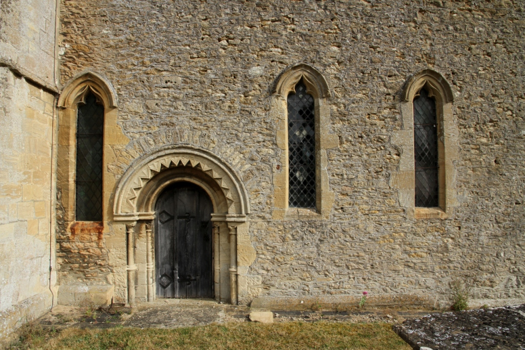 St Faith's parish church, Shellingford, Oxfordshire (formerly Berkshire): 12th-century priest's door and 14th-century windows on the south side of the chancel